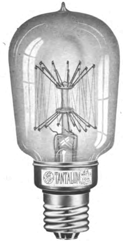 A General Electric tantalum incandescent light bulb from 1908, 100 V, 44 watts. Refractory metal filaments began to replace the Edison carbon filament in light bulbs around the turn of the century, because they lasted longer and used less energy. Tantalum was the first widely used metal filament, which briefly took over before the more durable tungsten filament was developed. Siemens developed the tantalum lamp in 1902 and GE bought the rights to it and produced them until 1913. Several feet of filament were needed per bulb and the filament wire wasn't double-coiled as modern filaments are, requiring the elaborate support structure seen. The filament contracted during use, so the bulb was made with slack loops of filament which tightened during use. The tantalum lamp had an efficiency of 2 watts per candle, 35% better than the 3.5 watts per candle of carbon. On DC it had a life of 800 hours, but its life was much shorter on AC, and the spreading use of AC distribution systems doomed it.